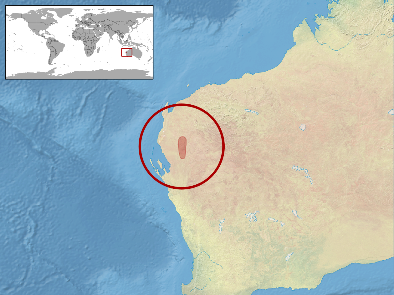 geographic distribution of Lerista kennedyensis